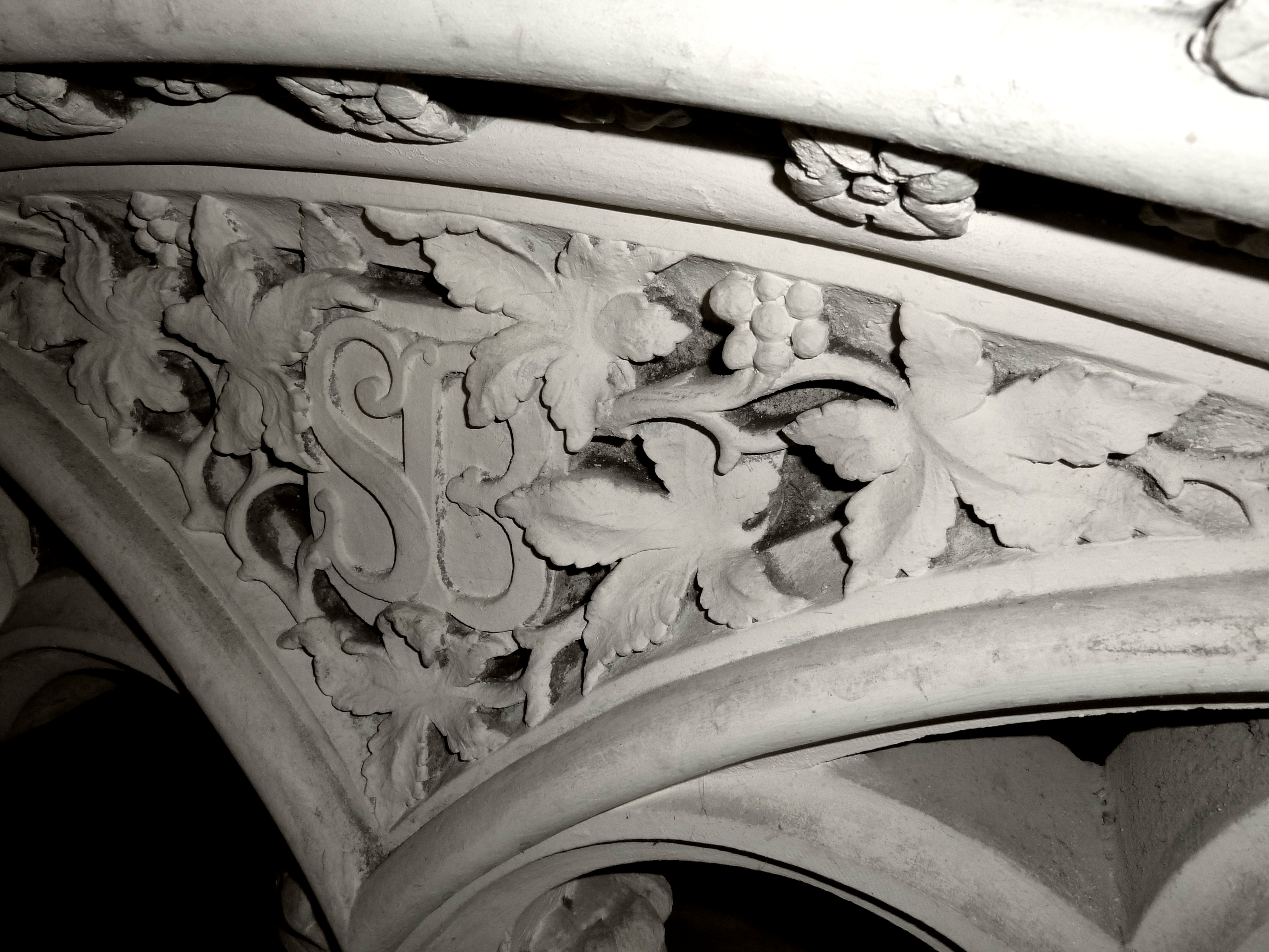 The Susannah Blesard Memorial of 1856, in St Mark's Church, Woodhouse, Leeds, West Yorkshire. It is at the east end of the north aisle, inside the vestry and under a window also dedicated to Susannah Blesard, of 1856. As of 2017 the monument was mostly concealed behind a shelving system, so it could only be partially photographed. Showing right hand side of sepulchre arch, with SB motif. It was carved by Catherine Mawer, and as of 2017 it is in very worn condition. The missing item in the centre of the cornice was a "Tudor flower." The area where the base panel should be is covered up, so that part may be missing. The sepulchre arch above conceals most of the metal memorial inscription panel, which is now almost illegible, the painted and engraved lettering being much worn away. The sepulchre arch carries a quotation in Gothic lettering: "For as in Adam all die, even so in Christ shall all be made alive." (Corinthians 15:22). The legible part of the memorial inscription says: "...Memory ... Susannah Blesard ... 31st of March 1855, aged 79 years / widow of Robert Blesard / ... most tender and affectionate wife / a sincere Christian / By her will she provided that an annual sum of money should be distributed at Christmas / to the poor of the district and of Guiseley her native Parish / that the residuary of her effects should be invested in Covenant Securities / in the name of the ecclesiastical Commissioners for England and that the interest be paid in perpetuity / to the Incumbent of this Church. / As a record of the above bequests and as a tribute of affection to her revered Memory / ... this Monument and window are erected by her sole surviving child Phebe the wife of Thomas Tennant."